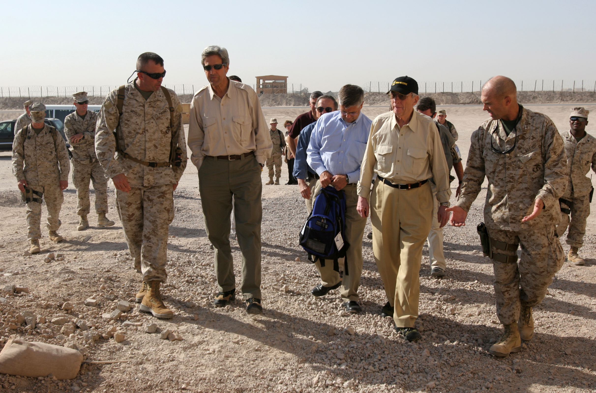 Camp Al Taqaddum, Iraq (Sept. 1, 2005) – U.S. Senators John Kerry of Massachusetts, Ted Stevens of Alaska, and Jon Warner of Virginia, walk with U.S. Marine Corps Maj. Gen. Stephen Johnson and Brig. Gen. John E. Wissler to the Marine Armor Installation Site (MAIS). The Senators were visiting the (MAIS) to learn more about the different types of vehicle armor the Marines are using to defend themselves from improvised explosive device attacks. U.S. Marine Corps photo by Lance Cpl. Brian A. Jaques (RELEASED)